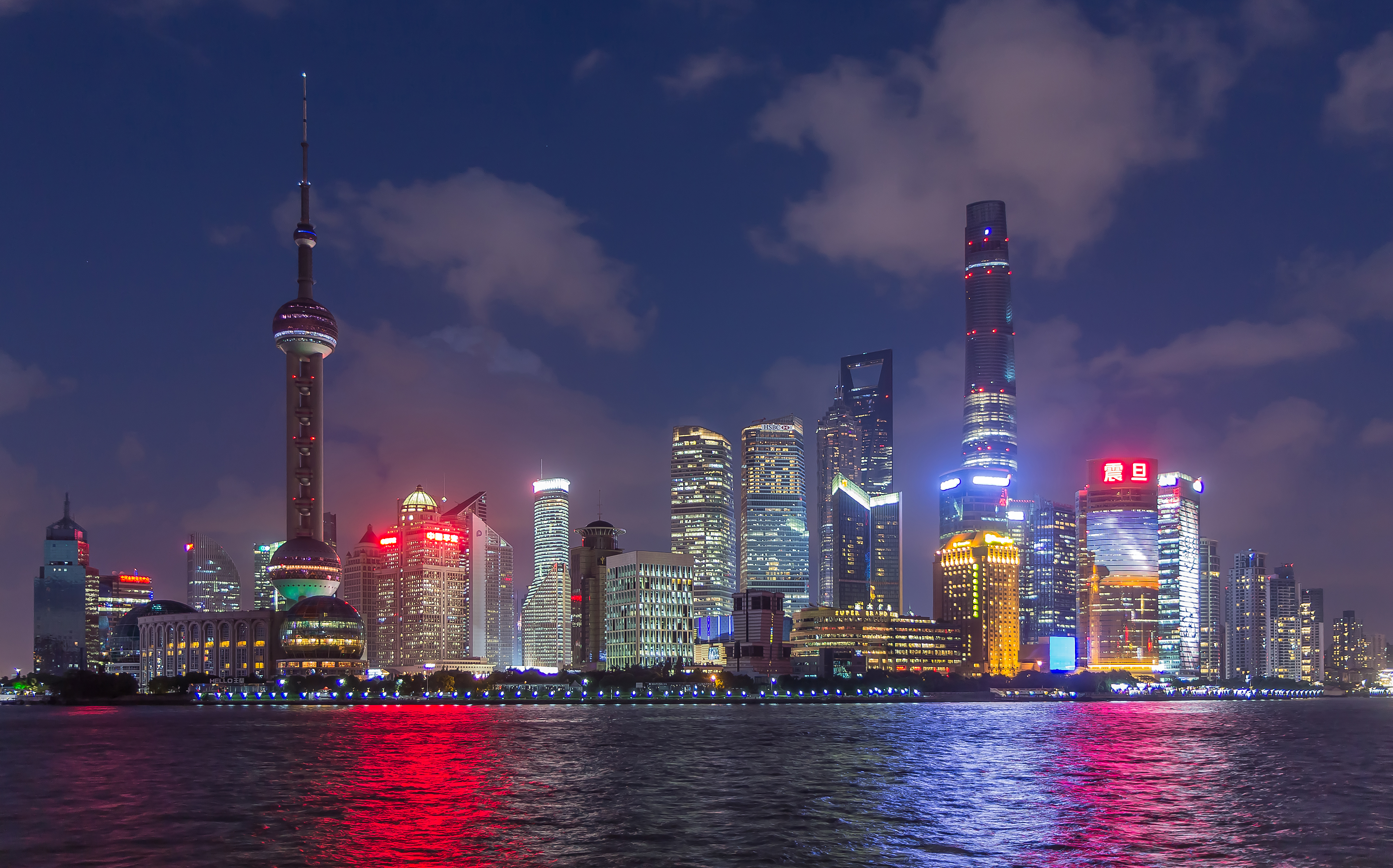 Skyline of Shanghai Pudong at sunset